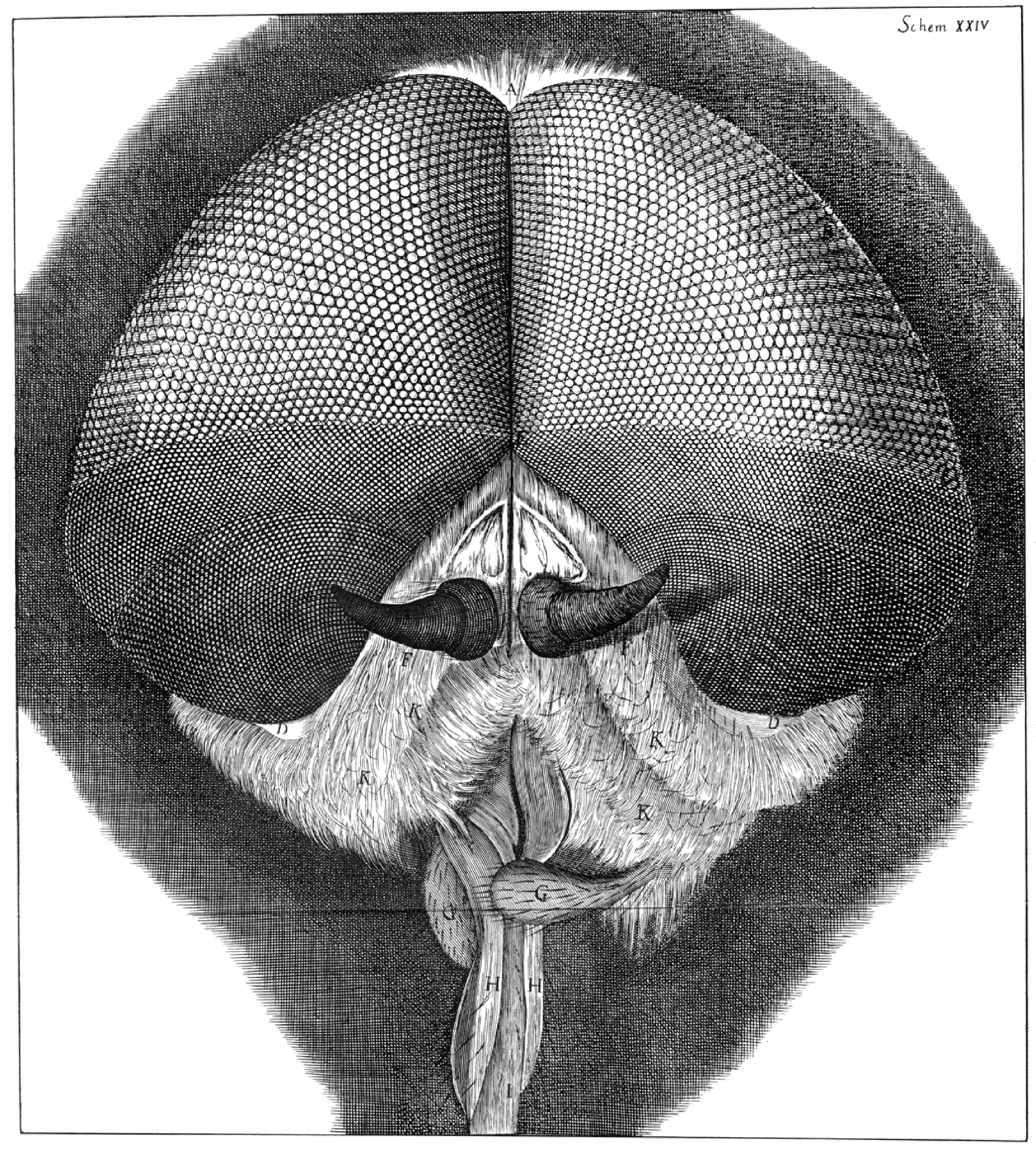 Scheme 24